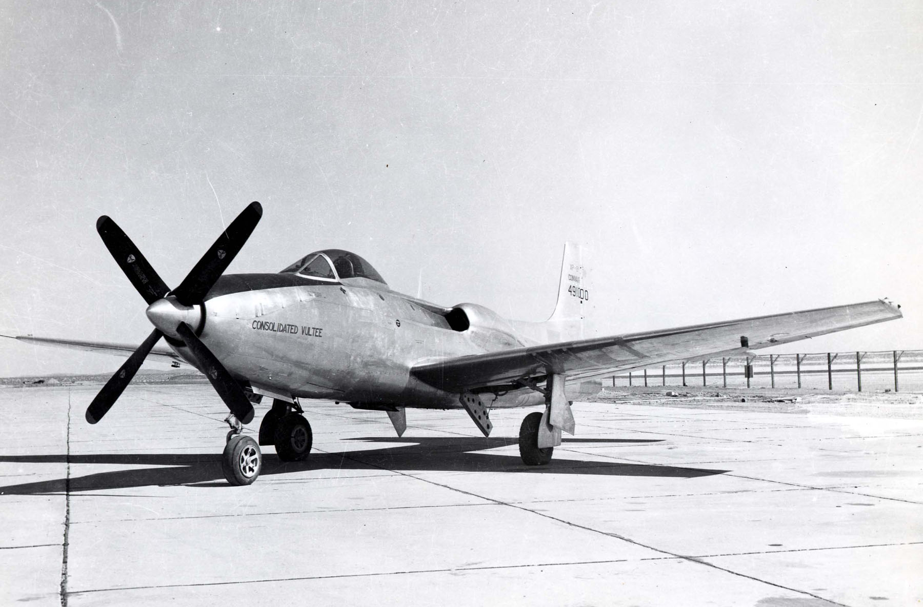 Convair XP-81 mixed-power fighter